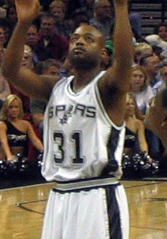 Nick Van Exel of the San Antonio Spurs attempts a free throw on December 9, 2005.